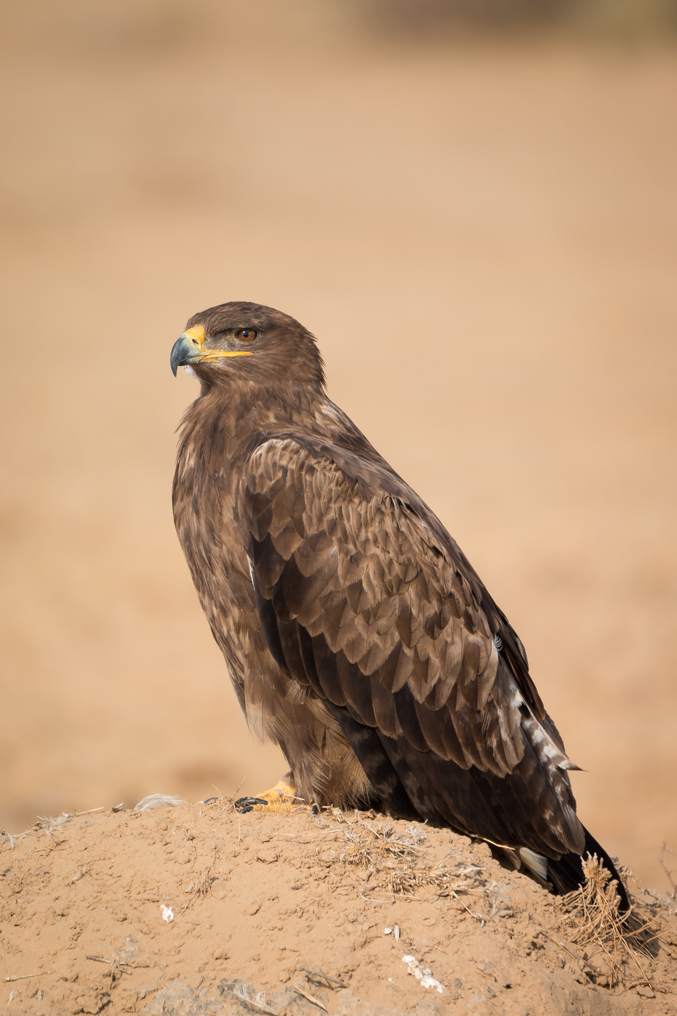 Individual at Jorbeer, BIkaner, Rajasthan